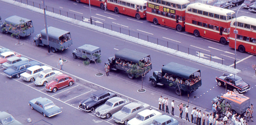 Police vehicles near Peninsula Hotel, in Kowloon, Hong Kong.